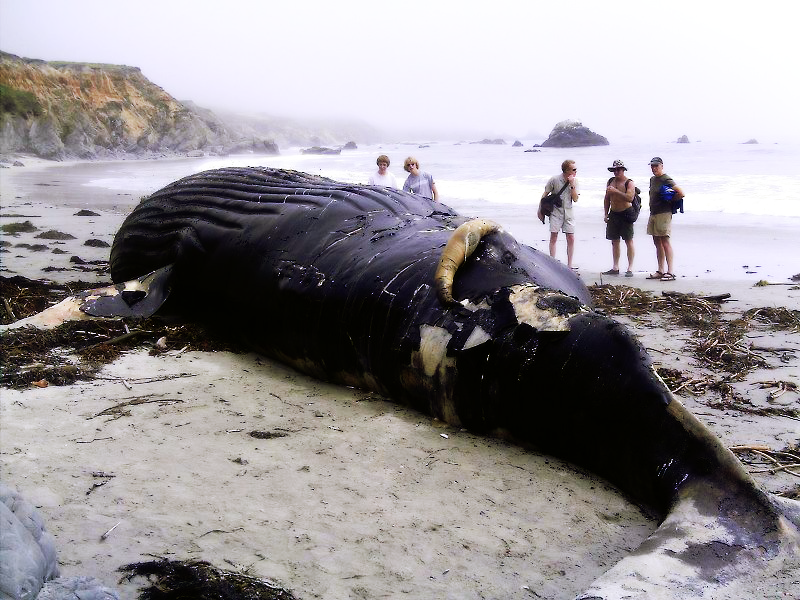 A dead Humpback Whale washed up near Big Sur, California. Cause of death is unknown.